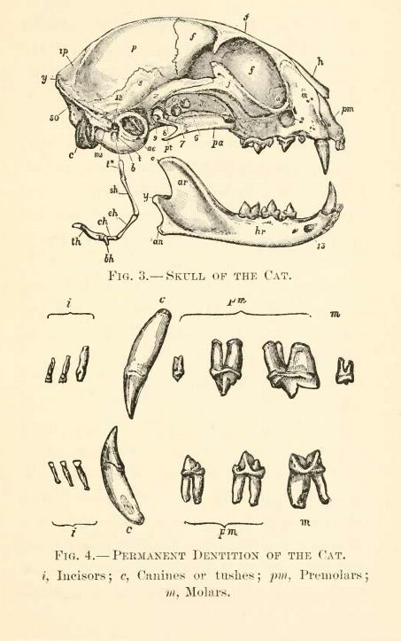 "Figures 3 and 4 show the skull of the cat and its dentition. It will be seen that the cat's teeth are set at more or less of a hooklike angle, with the points turned toward the inside of the mouth, which gives it a very powerful hold of anything which it grasps. The cat has thirty teeth in all. It will be seen in Figure 4 which represents the teeth of one side of the jaw that there is first in front a row of in- cisors (three on either side six in all), which are very small, and are practically rudimentary in this animal then two enormous tush teeth, which enable it to grasp its prey in the shape of the mouse, bird, or a simple piece of meat, and hold it firmly; then posterior come the premolars three in the upper jaw and two in the lower jaw of each side ; and behind these the molars one in each jaw. In the tempo- rary or milk dentition of kittens the molars are absent, leaving but twenty-six teeth. These, it will be seen (Figure 4), have enormous strong roots set in the jaw-bone, while the points are sharp and cutting; which allows of the man- gling of any solid food which may be taken, while it does not permit of grinding it, as is necessary in the herbivorous animals, or even, to a certain extent, in the omnivorous animals. The cat, like the dog, after having once grasped its food, tears it to a certain degree, and then swallows it whole, when its powerful stomach and organs of digestion allow of the rapid dis- integration of what it may have swallowed."